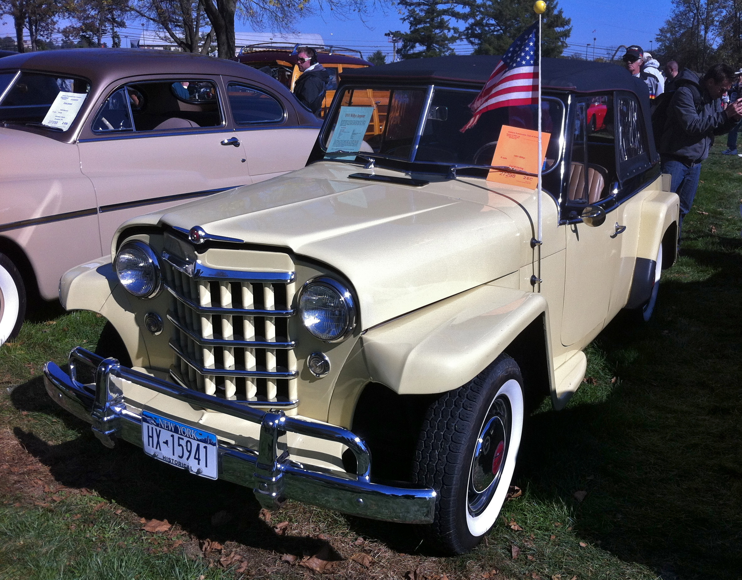 1951 Willys Jeepster. Picture taken on the show field of the Antique Automobile Club of America (AACA) 2012 Hershey meet that is held every October in Pennsylvania.